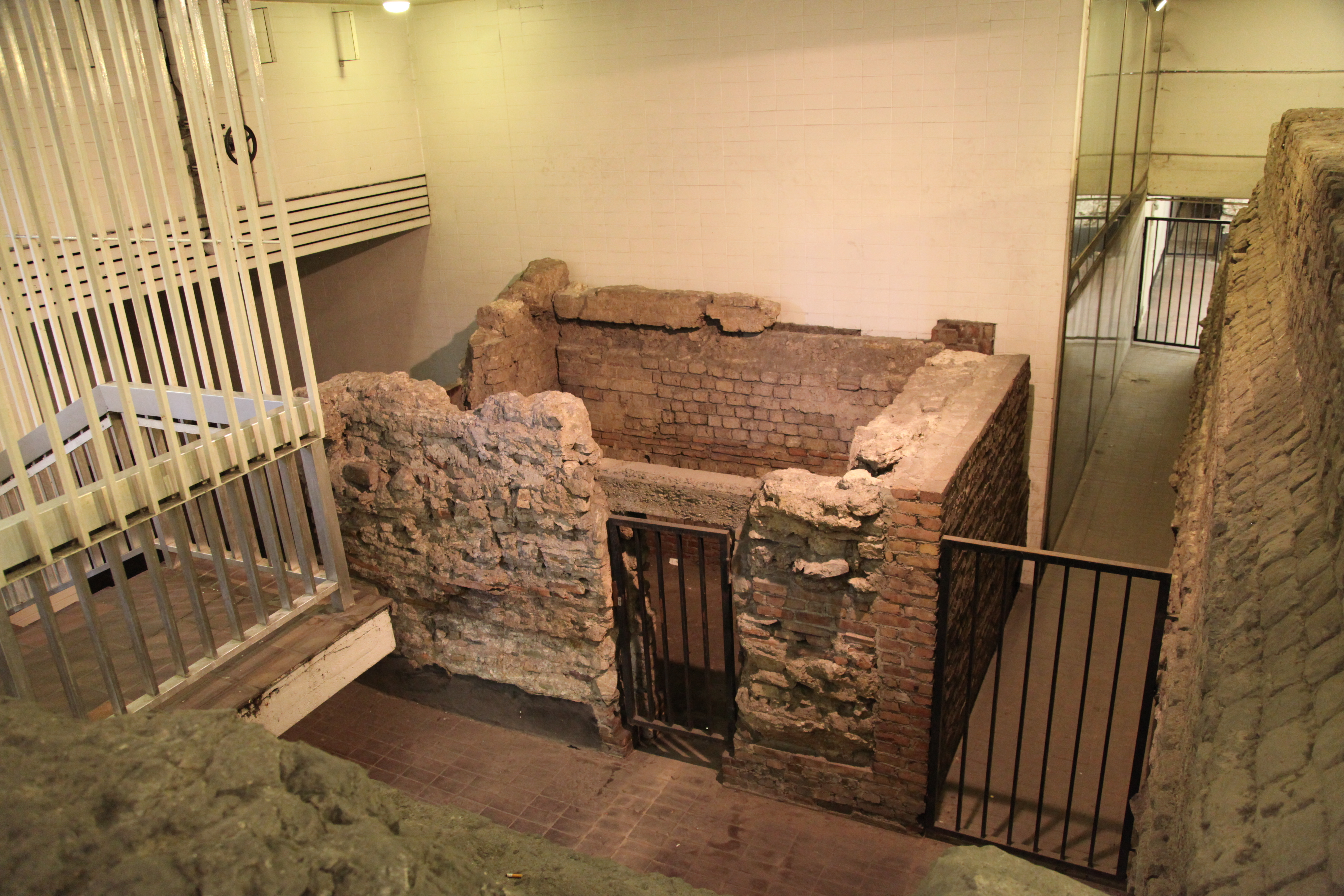 Roman cellar next to the so called Annostollen, part of the northern Roman town wall containing the escape tunnel of Anno II, car park "Parkhaus am Dom" below Domplatte and Roncalliplatz in Cologne